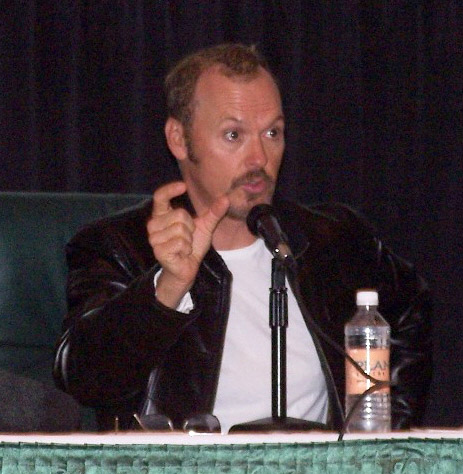 Michael Keaton promoting his movie White Noise at the 2004 Dallas Comic Con.